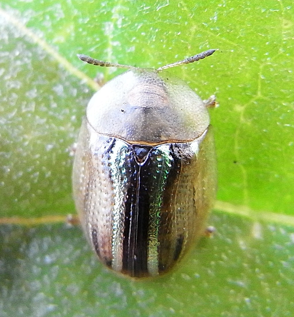 Cassida nobilis from Hungary, near Mako, at 2010-05-23 Ricoh R8